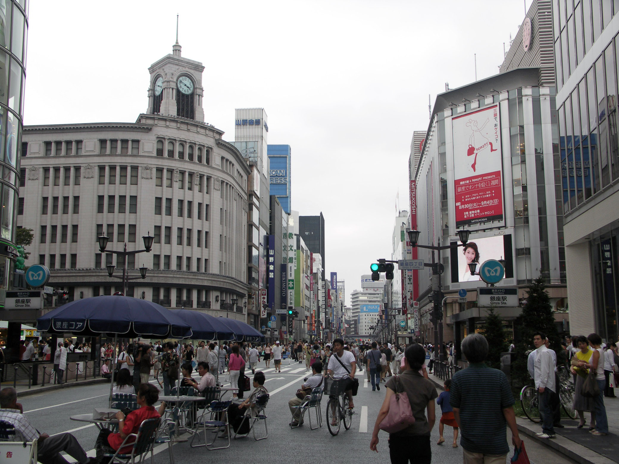 Open street for walkers (Hokōsya-Tengoku) on holiday at Chuou-dori Ginza, Tokyo